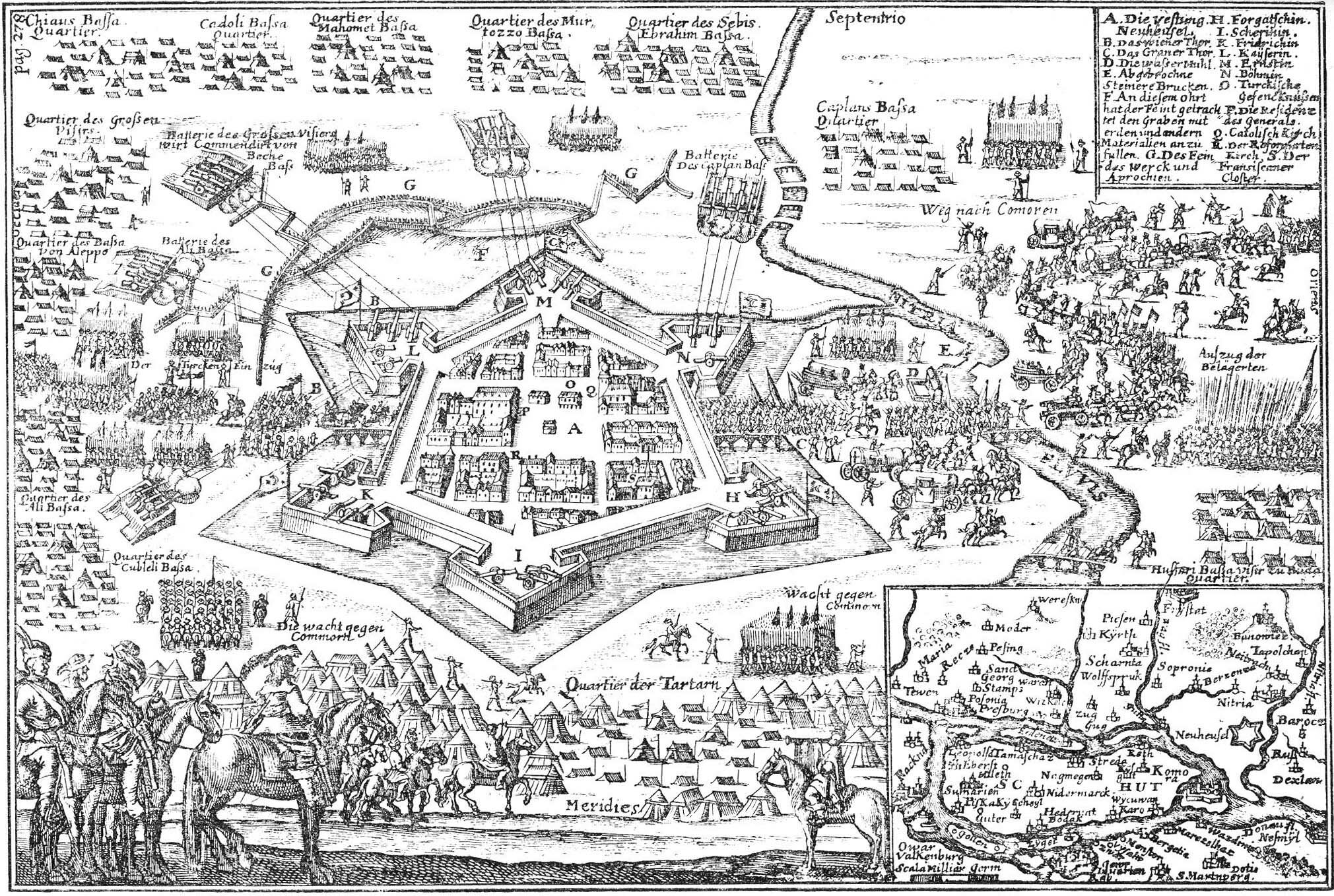 Siege of Neuhausel (Nové Zámky, Érsekújvár) in 1663